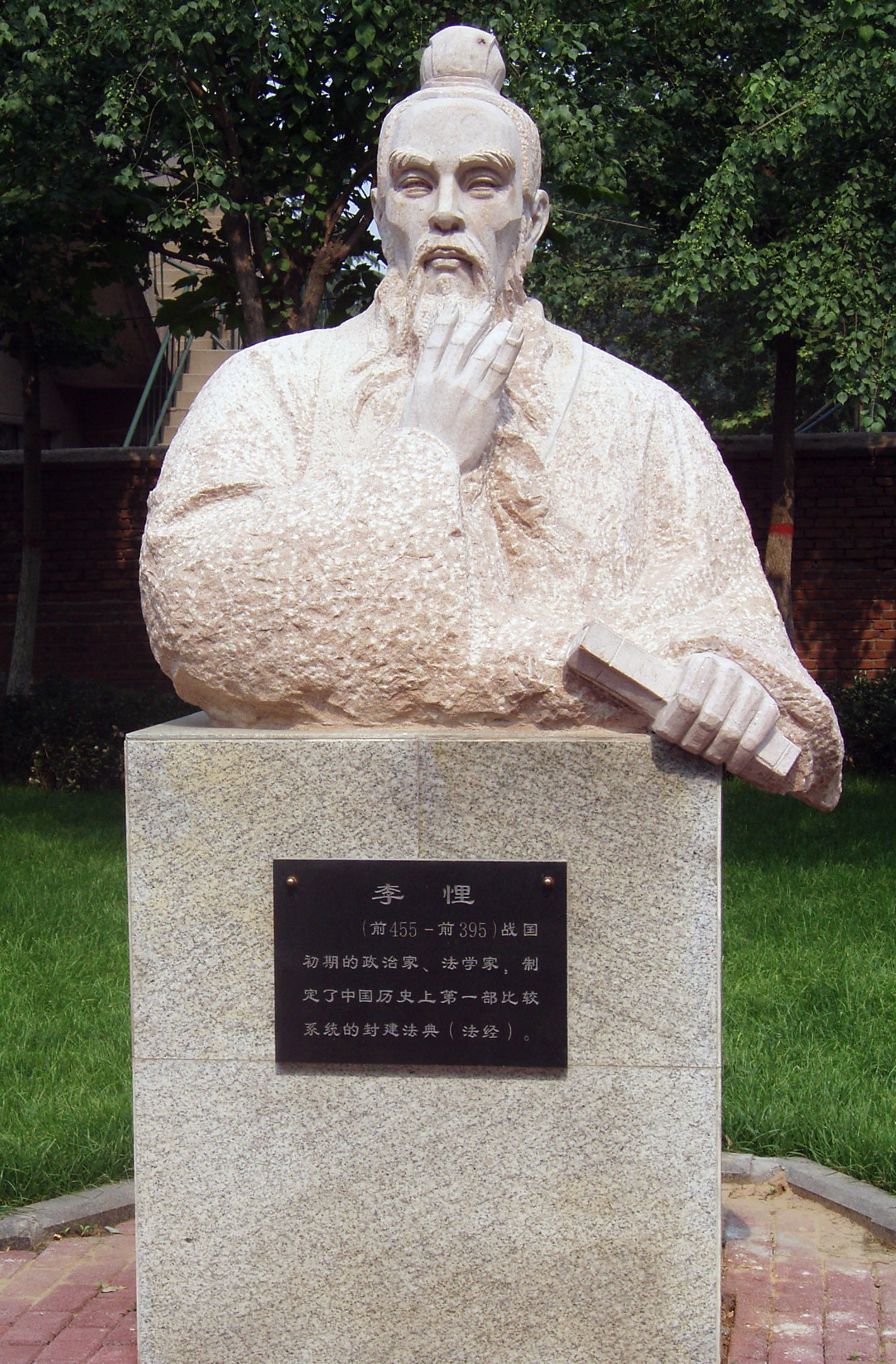 Statue of Li Kui, an Ancient Chinese celebrity